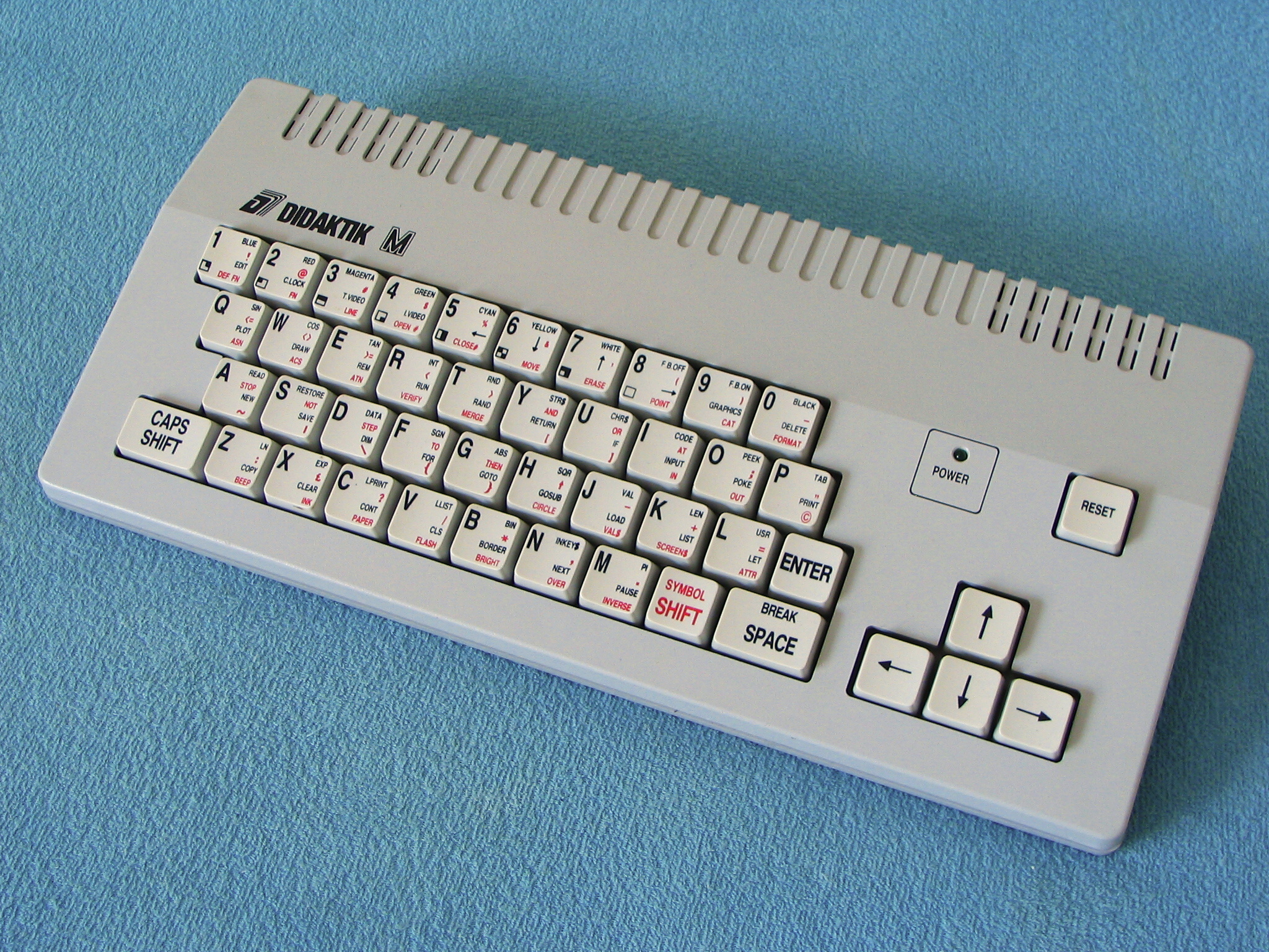 Didaktik M, czechoslovakian clone of ZX Spectrum